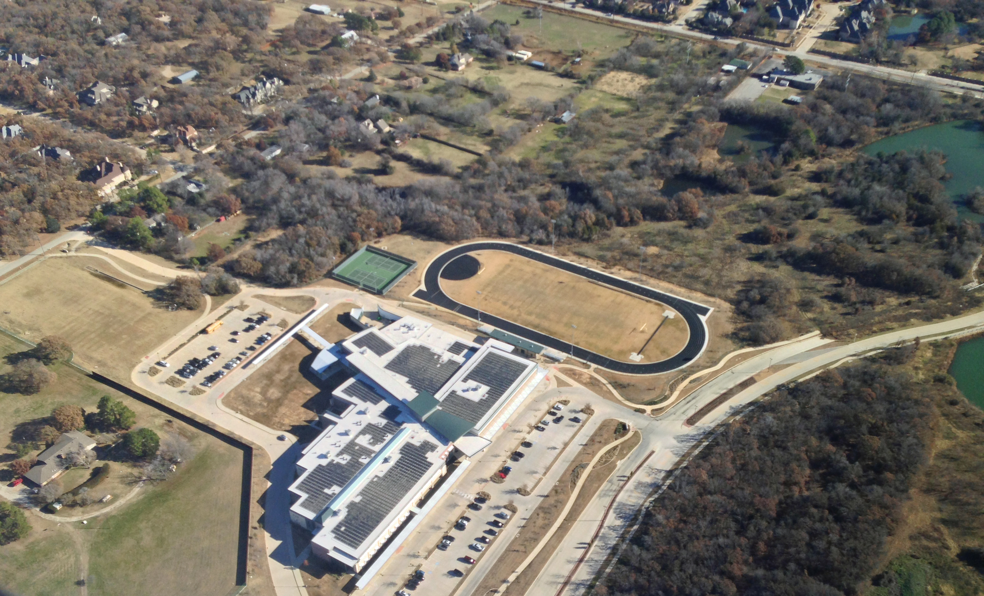 Carroll Middle School in Southlake, Texas viewed from aboard an American Airlines flight from Lubbock International Airport to Dallas-Forth Worth International Airport.